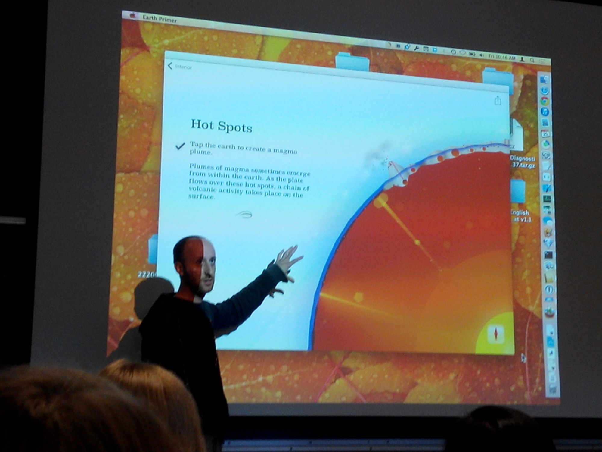 Chaim Gingold presents Earth Primer at Stanford University